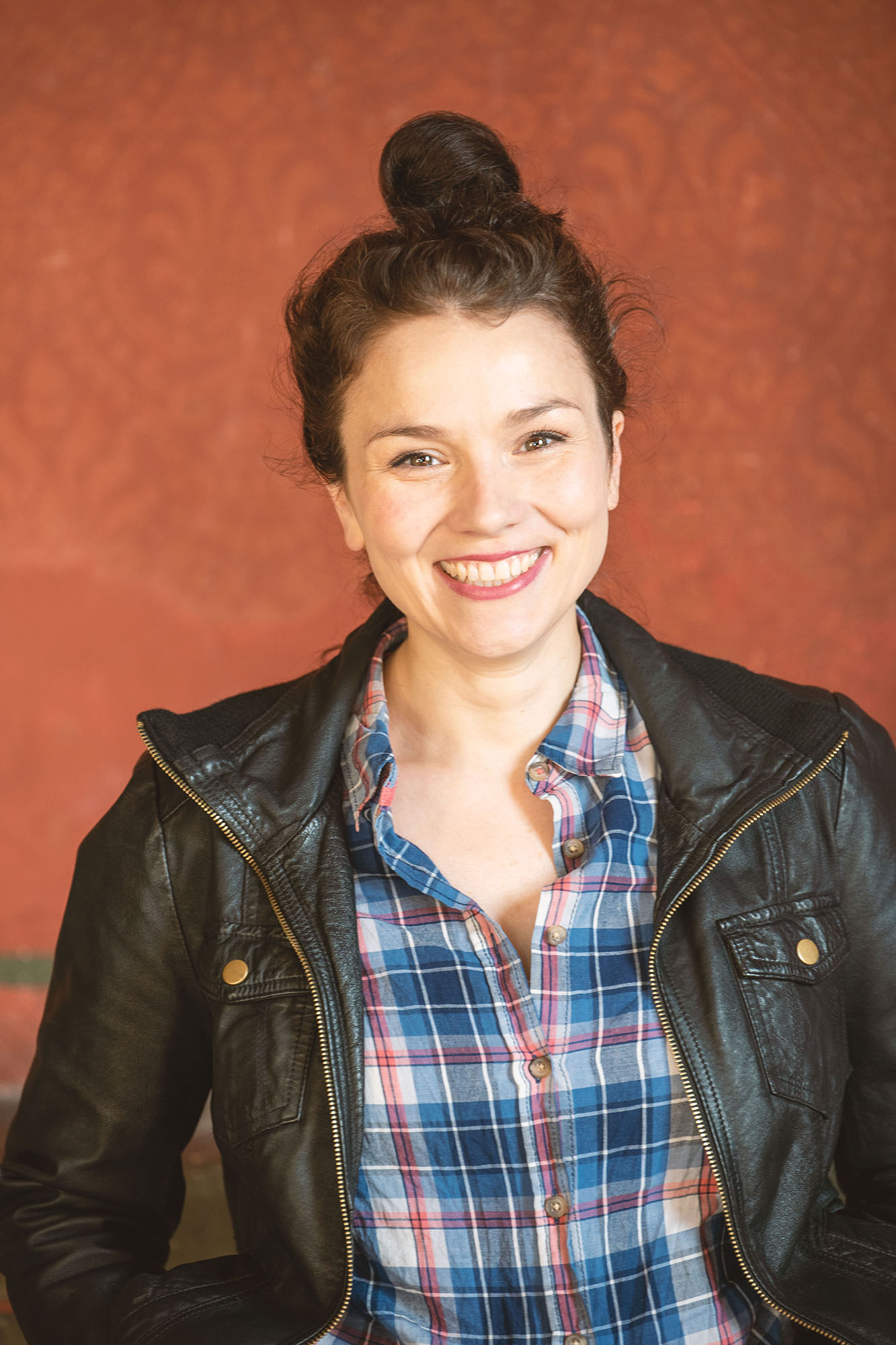 Porträtfoto von Nora Khuon. Leitende Dramaturgin am Schauspiel Hannover